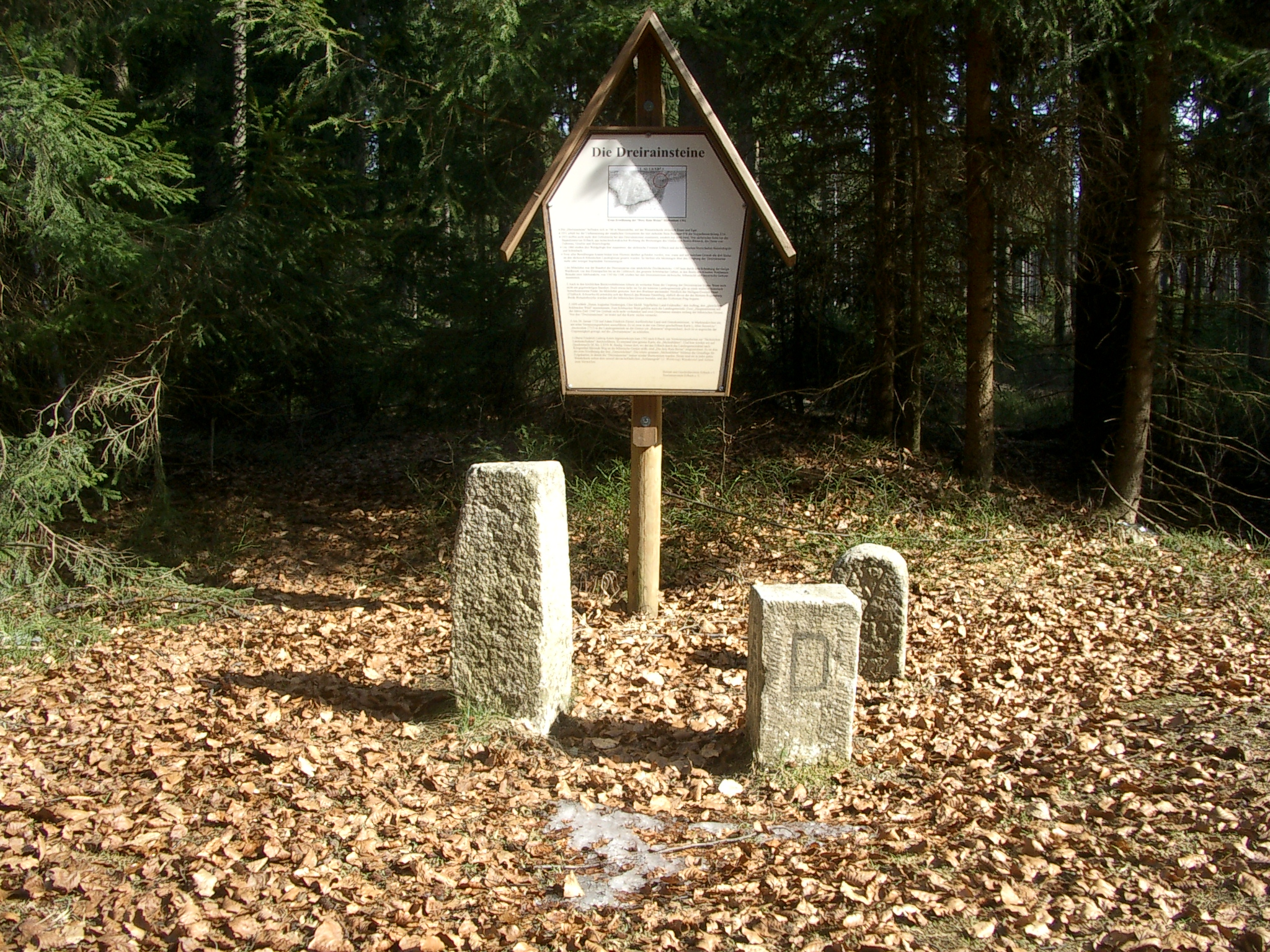 Dreirainsteine near Erlbach (Vogtland) Germany